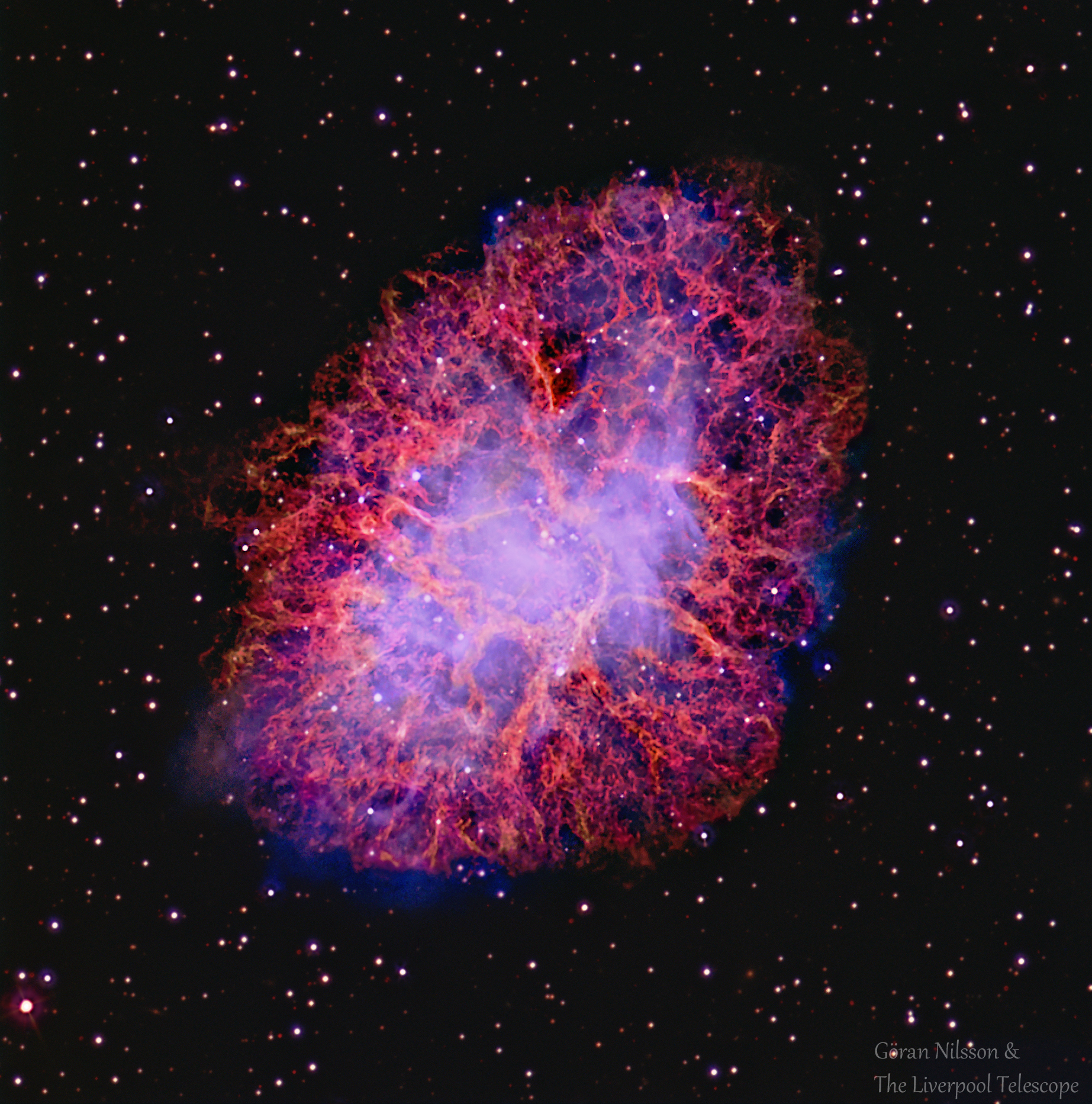 HaRGB (H-alpha) image of the Crab Nebula (M1) from an earthbound telescope, the Liverpool Telescope (a 2 m RC telescope on La Palma), processed by Göran Nilsson. Exposure: 58 x 90 s = 1.4 hours